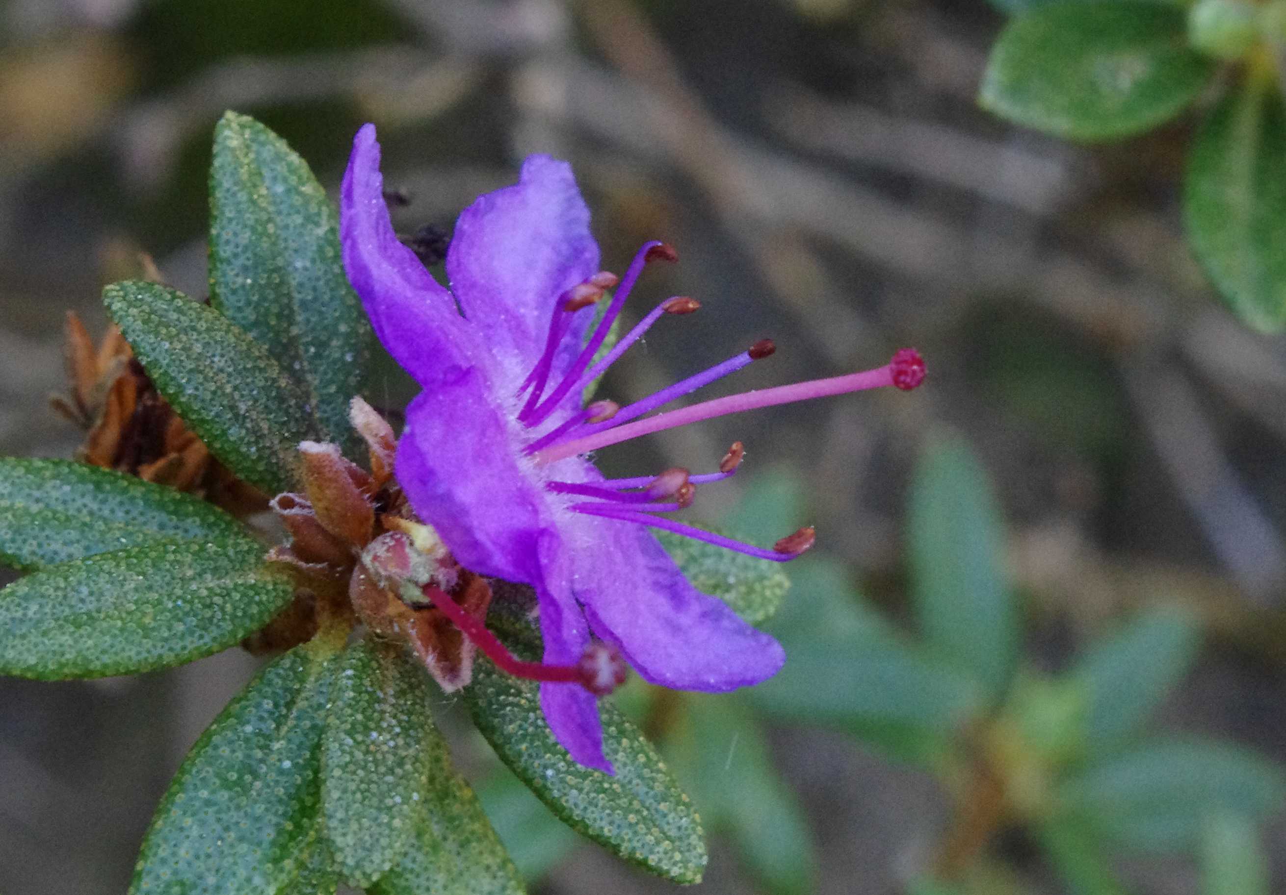 Rhododendron violaceum (= Rhododendron nivale subsp. boreale) at the ÖBG Bayreuth